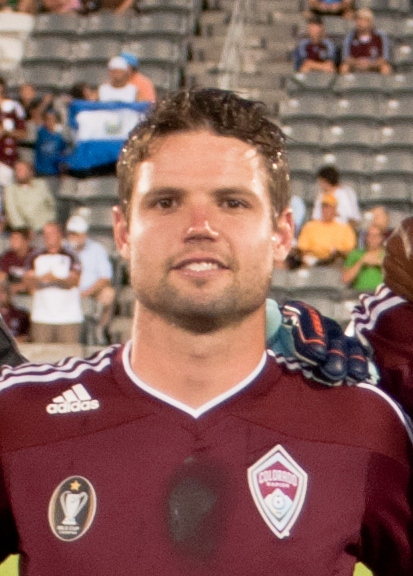 Drew Moor prior to the start of the game in a group photo (2011)